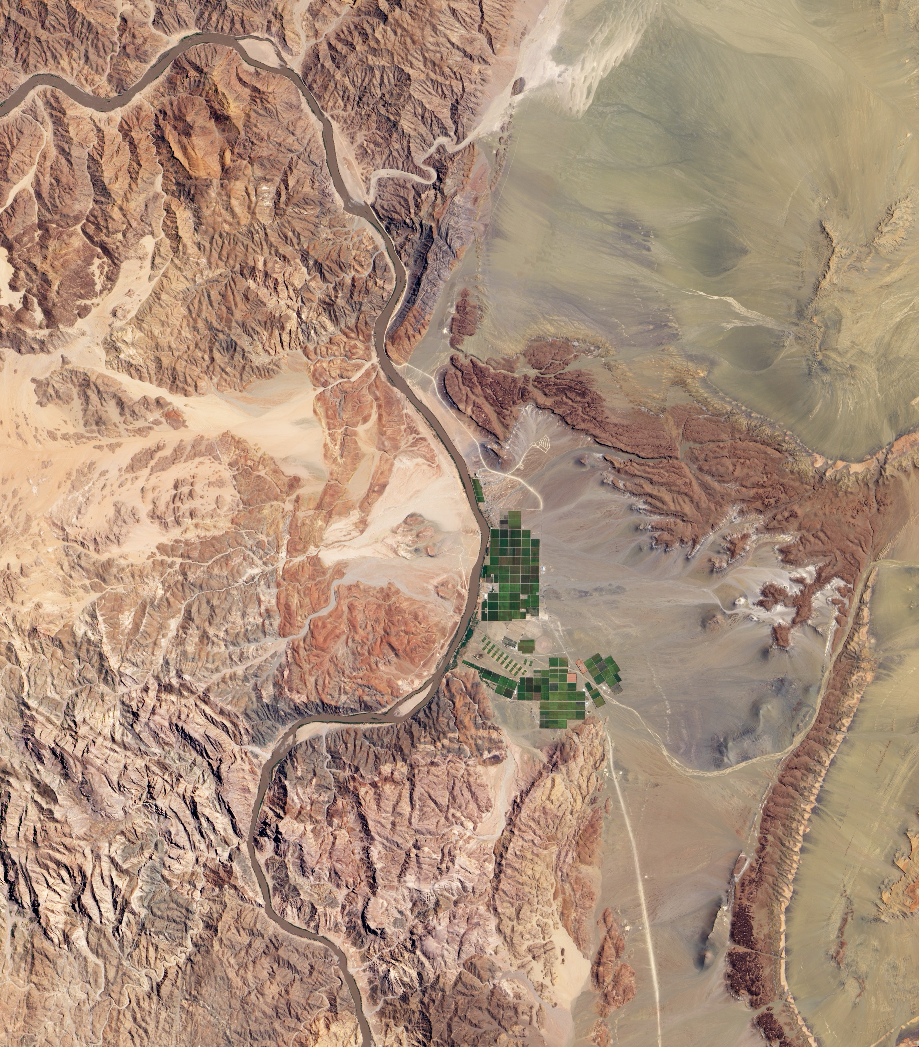 Along the banks of this river, roughly 100 kilometres inland from where the river empties into the Atlantic Ocean, irrigation projects take advantage of water from the river and soils from the floodplains to grow produce, turning parts of a normally earth-toned landscape emerald green. A network of bright rectangles of varying shades of green contrasts with surroundings of grey, beige, tan, and rust. Immediately south of a large collection of irrigated plots, faint beige circles reveal centre-pivot irrigation fields apparently allowed to go fallow.